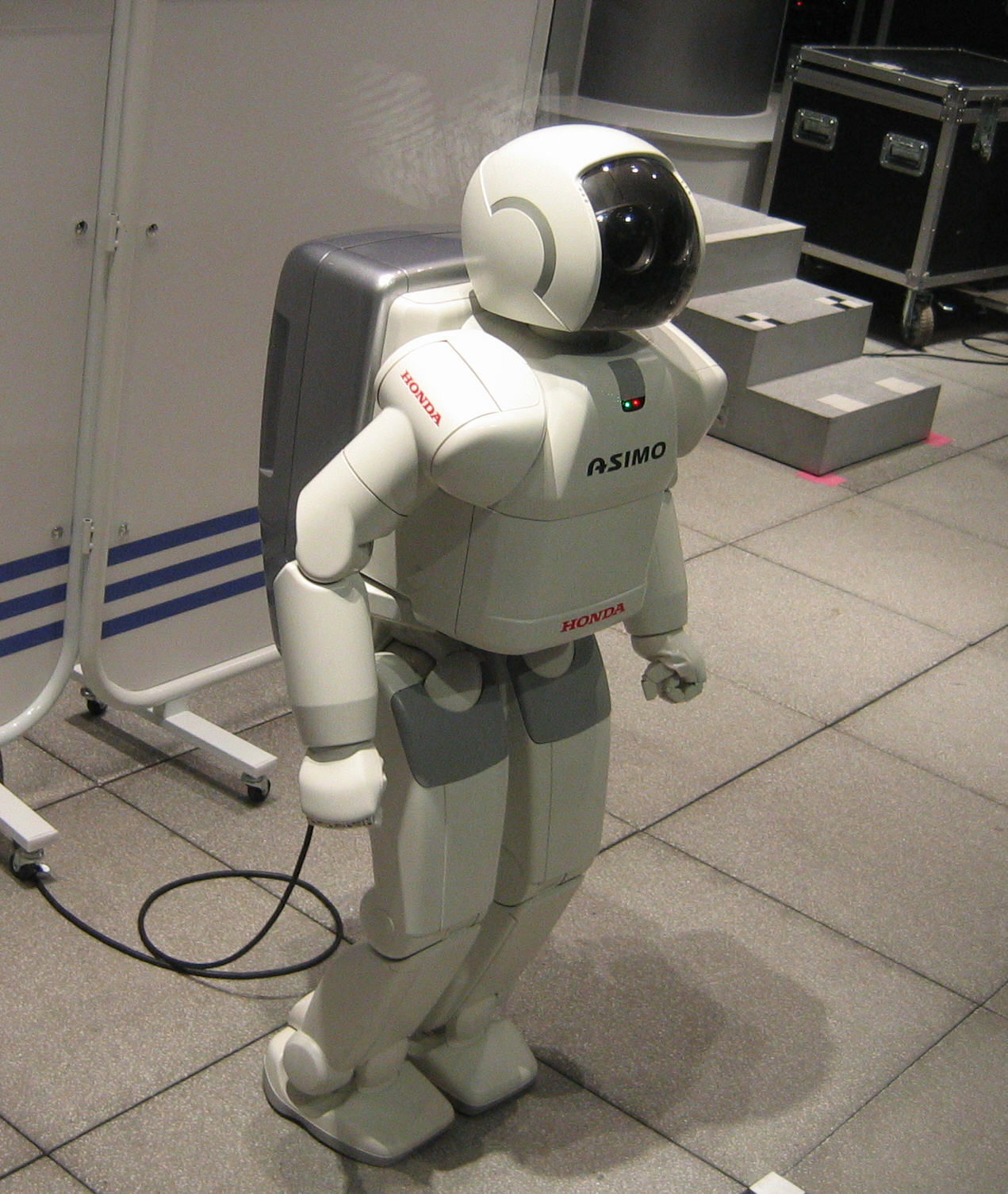 Photo taken by Poppy in February 2005. Asimo : Honda robot